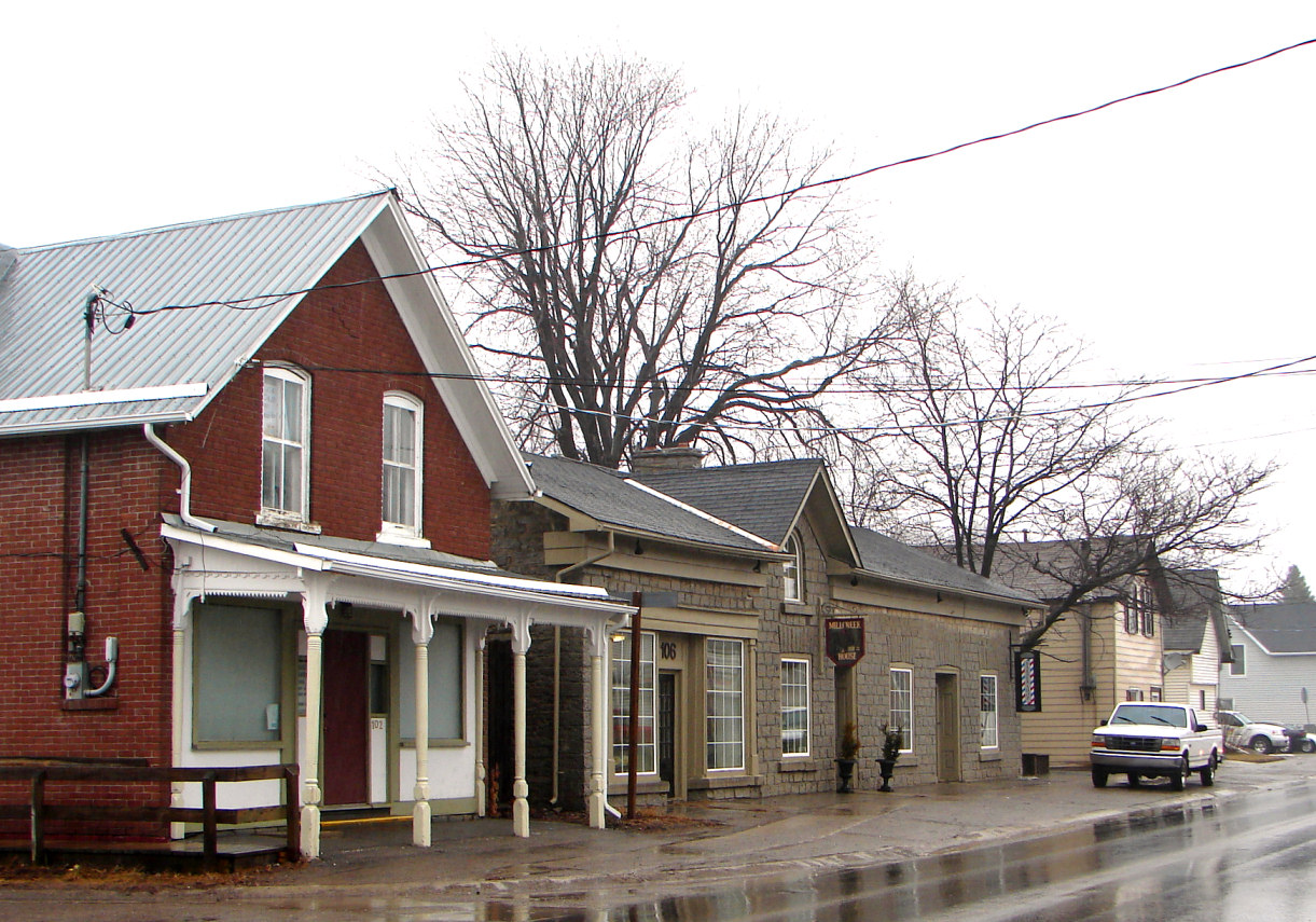 Odessa, Ontario, Canada